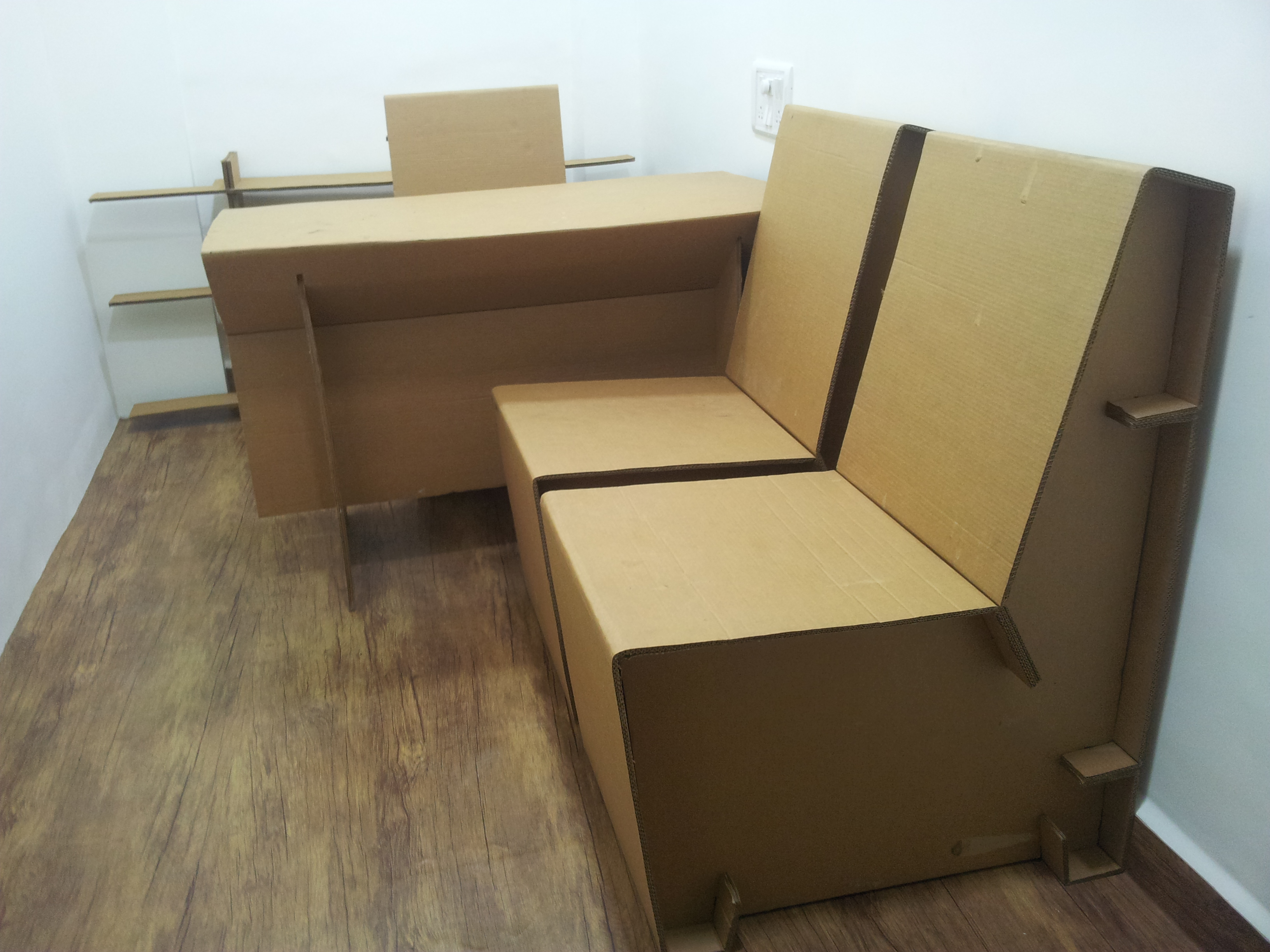 India First Cardboard Furniture By Amrish J Kawa